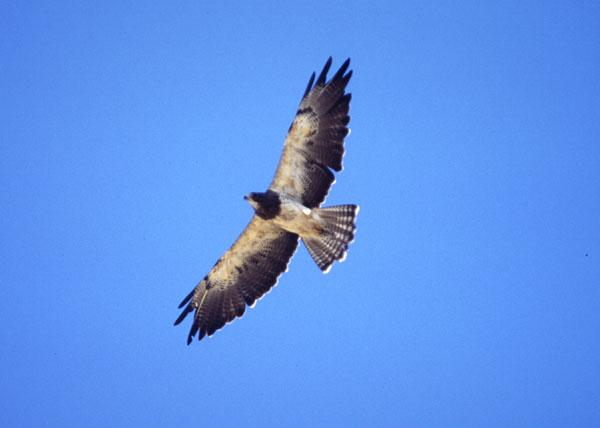 Transwiki approved by: User:Dmcdevit This image was copied from en. The original description was: Adult Swainson's Hawk in flight. BLM file photo taken from BLM webpage.